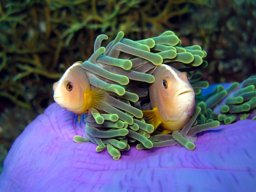 Skunk Anemonefish - Amphiprion akallopisos, Thailand